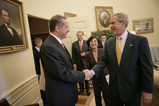 President George W. Bush welcomes Prime Minister Recep Tayyip Erdogan of Turkey to the Oval Office Monday, October 2, 2006.